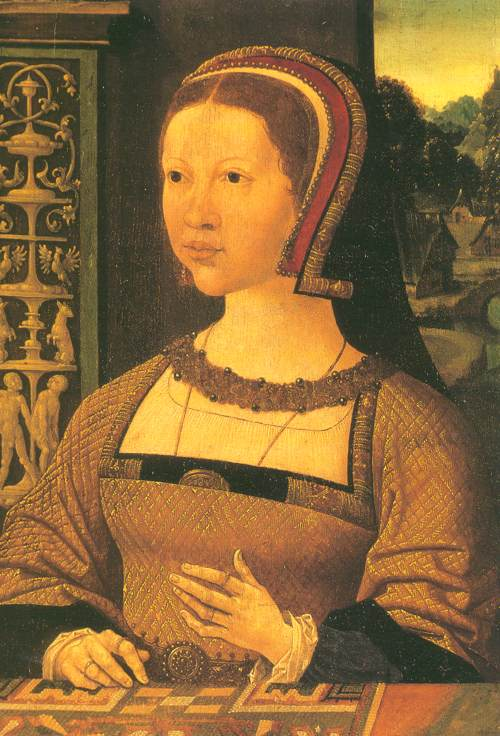 The Archduchess Margaret (Margaretha) of Austria (10 January 1480 – 1 December 1530) was a Habsburg princess, the daughter of Maximilian I, Holy Roman Emperor and Mary of Burgundy. Archduchess Margaret as Duchess of Savoy, 15th century, Margarete von Österreich als Herzogin von Savoyen In 1483, she was betrothed to the Dauphin of France, later King Charles VIII of France, bringing with her a dowry of Franche-Comté and Artois, and was transferred to the guardianship of King Louis XI of France (see Treaty of Arras (1482)). After Charles renounced the treaty and married Anne of Brittany, Margaret was returned to her father in 1493. In 1497, she was married to Juan, Prince of Asturias, Infante of Spain (1478–1497), the son and heir of King Ferdinand II of Aragon and Queen Isabella I of Castile, but he died after only six months. Juan left her pregnant, but she later gave birth to a stillborn child. In 1501, she married Philibert II, Duke of Savoy (1480–1504), who died three years later. This marriage had been childless as well. She was appointed for the first time as governor of the Habsburg Netherlands (1507–1515) and guardian of her young nephew Charles (the future Charles V, Holy Roman Emperor).